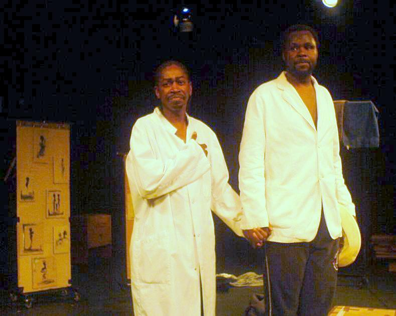 Photo taken at the Barbican Centre, May 2007 - Habib Dembele and Pitcho Womba Konga in Sizwe Banzi is Dead